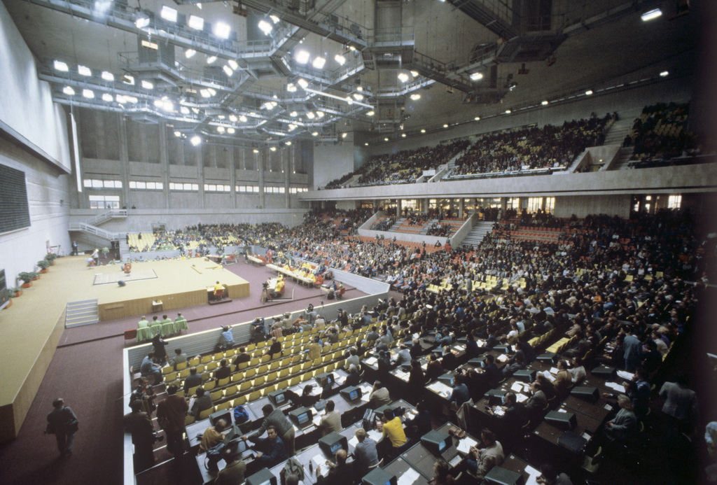 “Weightlifing at 1980 Olympic Games”. Weightlifing at the 22nd Summer Olympic Games. Sports Palace in Izmailovo constructed for weightlifting competitions.